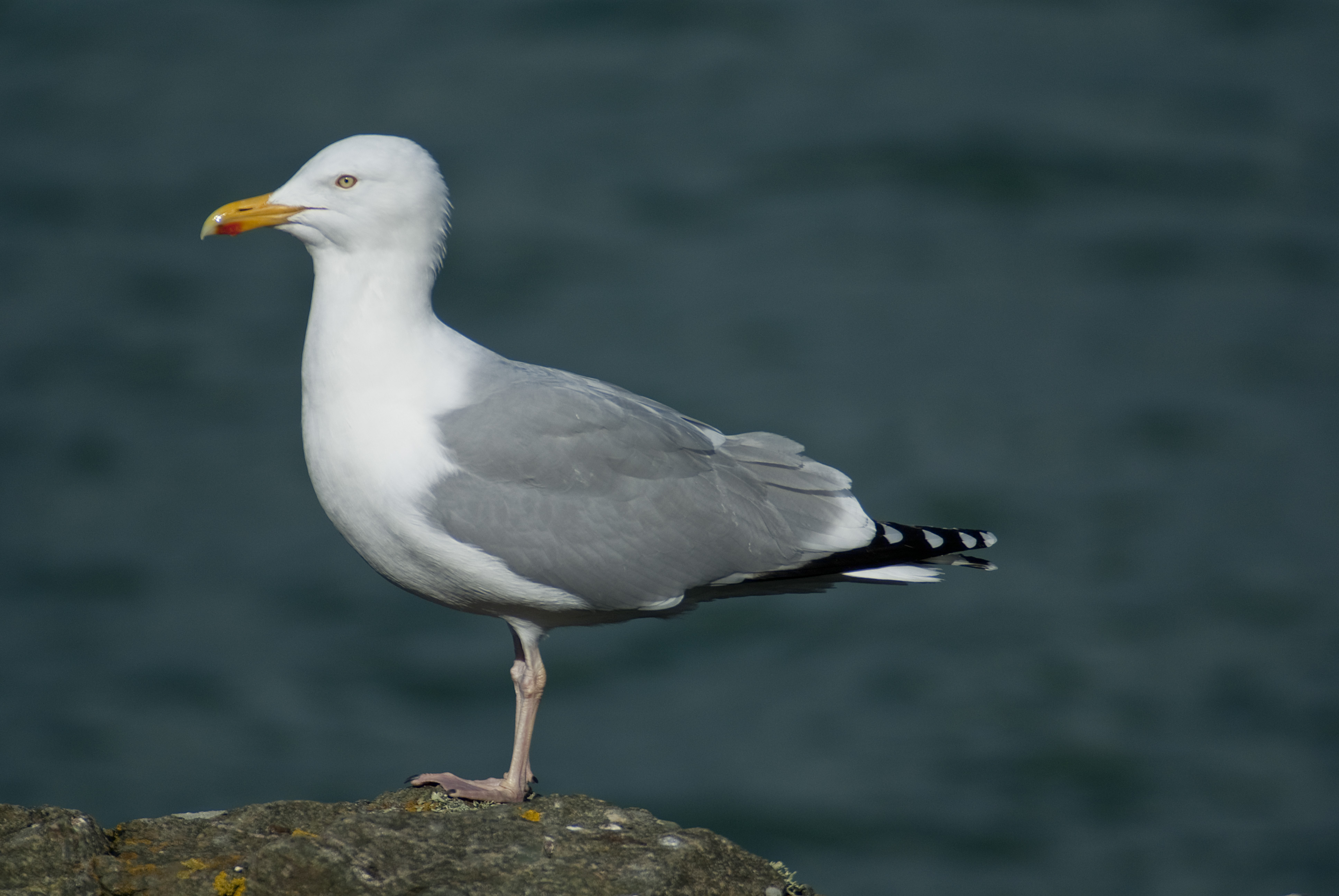 A European Herring Gull in Greystones, near Bray Head, County Wicklow, Ireland.